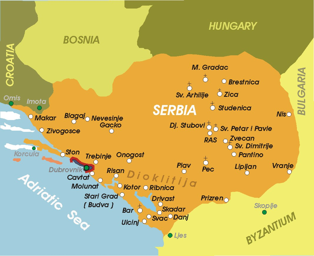 Serbia during the rule of Prince Stefan Nemanja - XII c AD. (History of Ancient Balkan Countries, University of Belgrade, 1922)